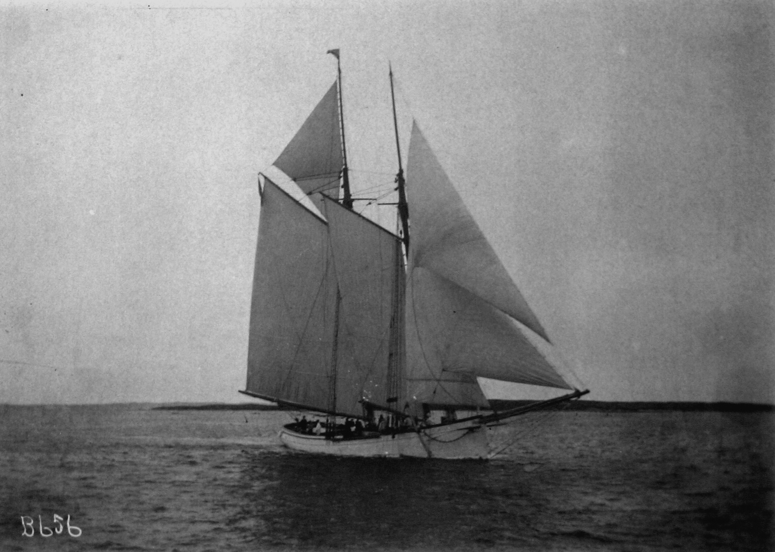 The United States Commission on Fish and Fisheries (commonly known as "United States Fish Commission") fisheries research schooner USFC Grampus off Massachusetts